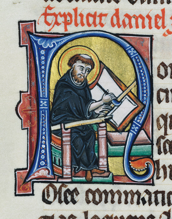 Hamburg Bible